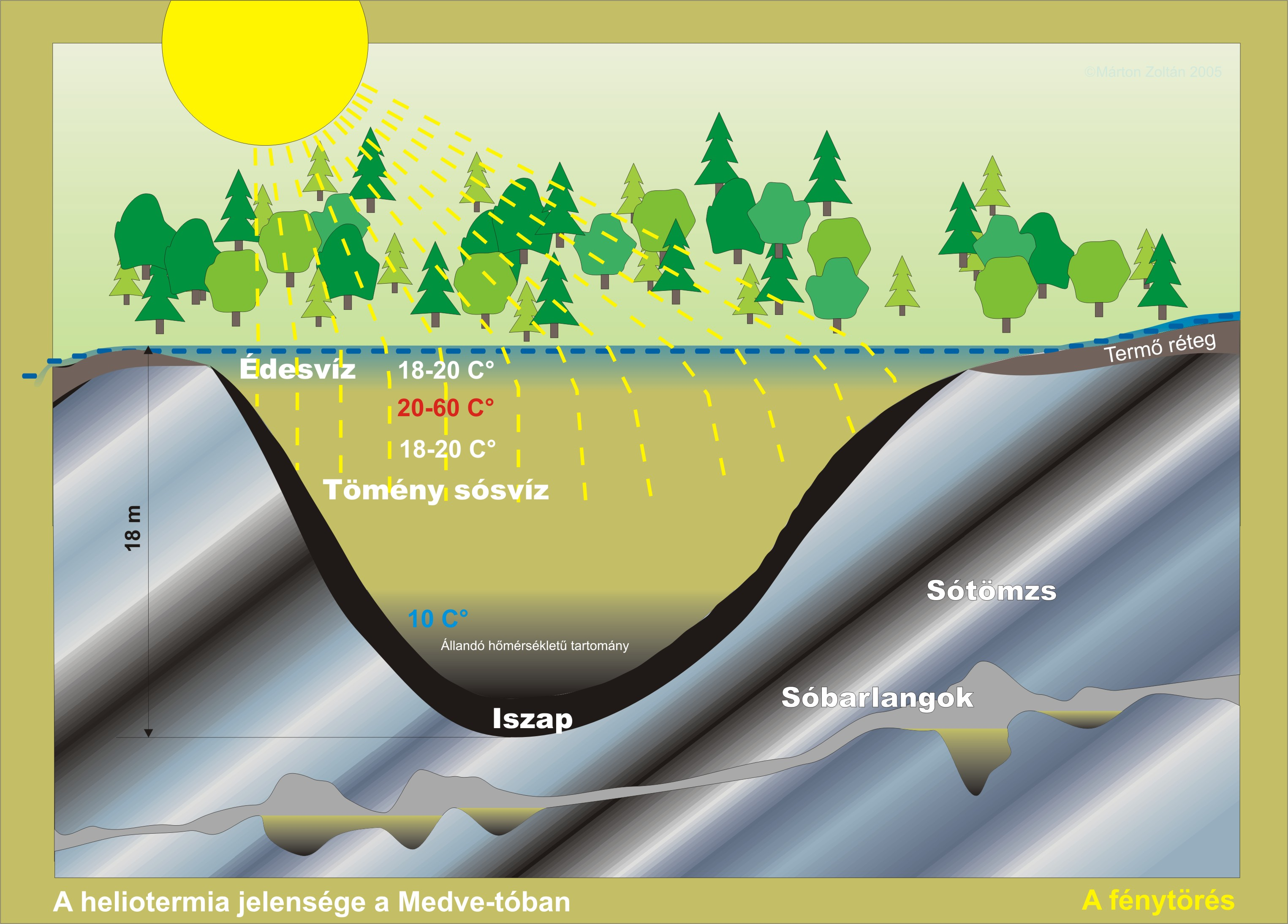 The draft of the heliothermal effect in Bear-Lake, Szováta, Transsylvania